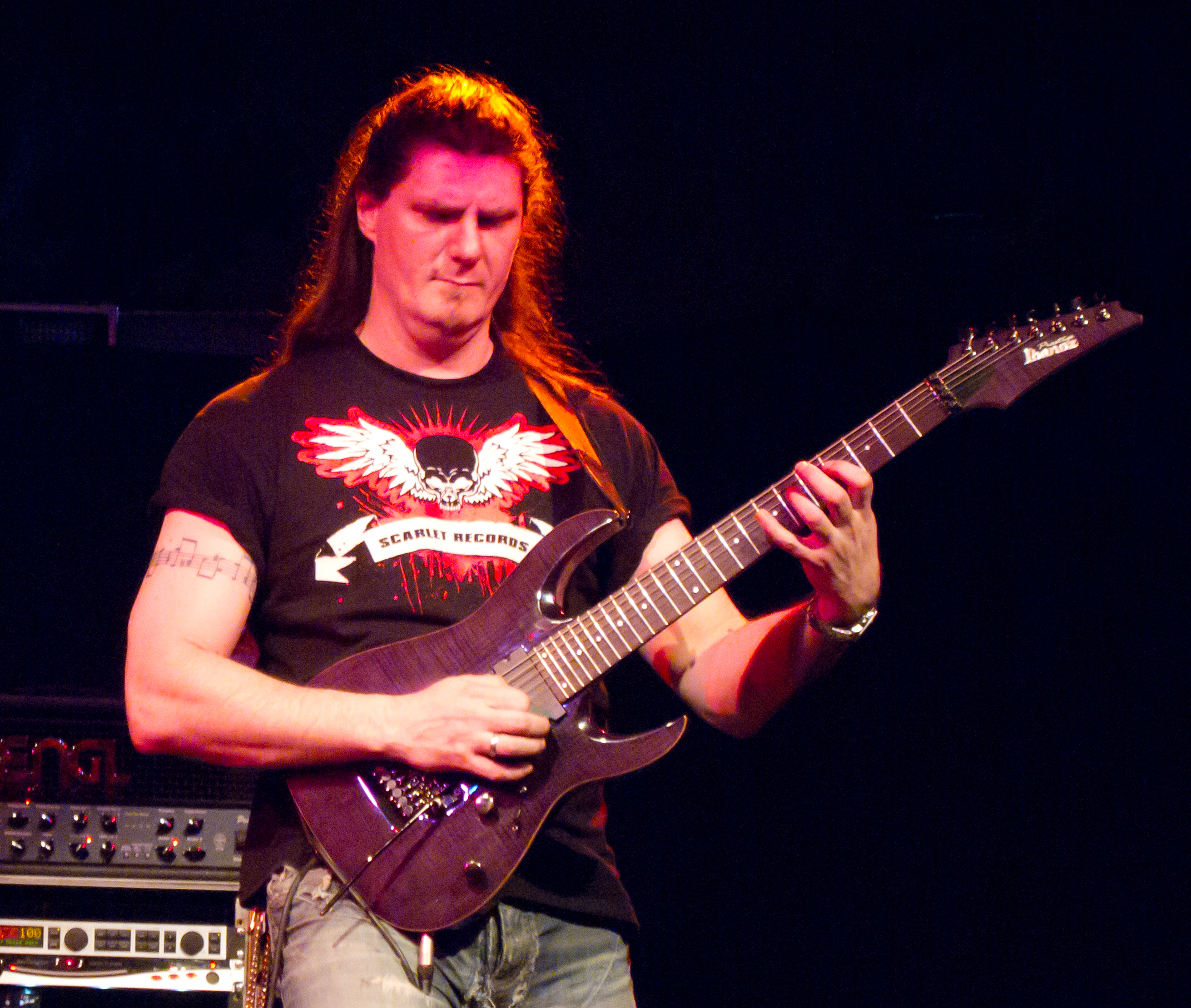 Olaf Thorsen (Labyrinth) live.